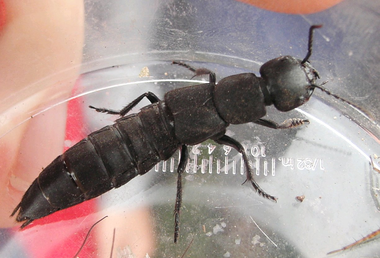 Ocypus olens (formerly known as Staphylinus olens) from Nettersheim, Germany.